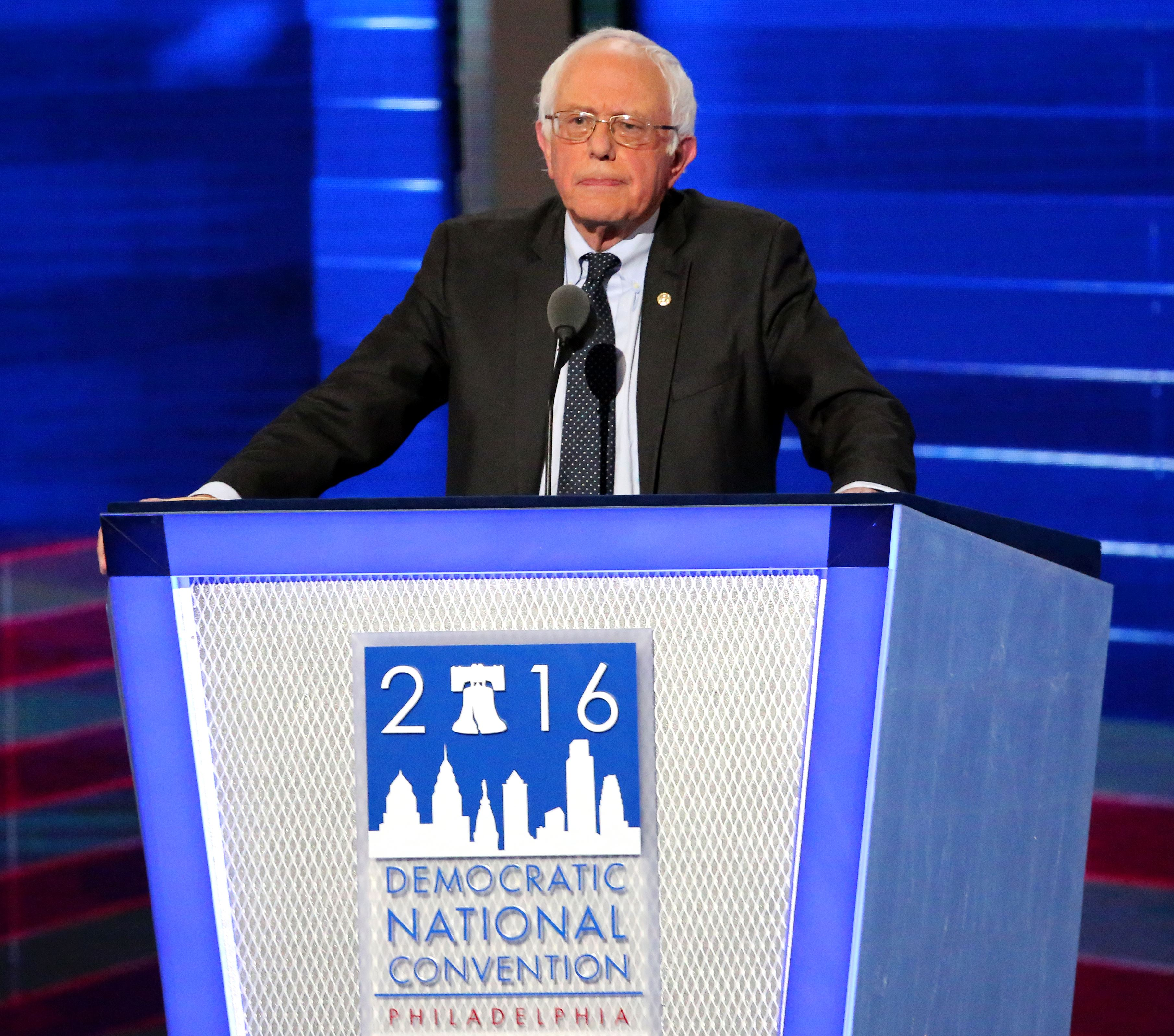 Bernie Sanders thanked his supporters for starting a political movement at the Democratic National Convention in Philadelphia, July 25, 2016.